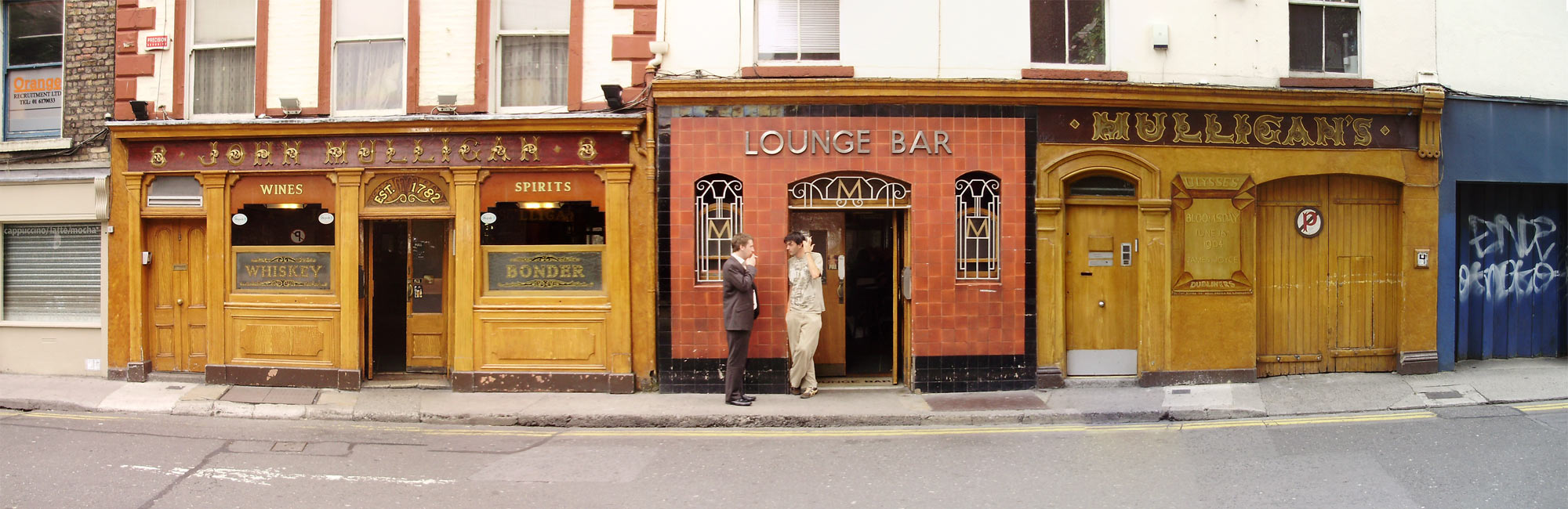 Mulligan's pub on Poolbeg Street, Dublin, Ireland. Customers smoke outdoors owing to the smoking ban.